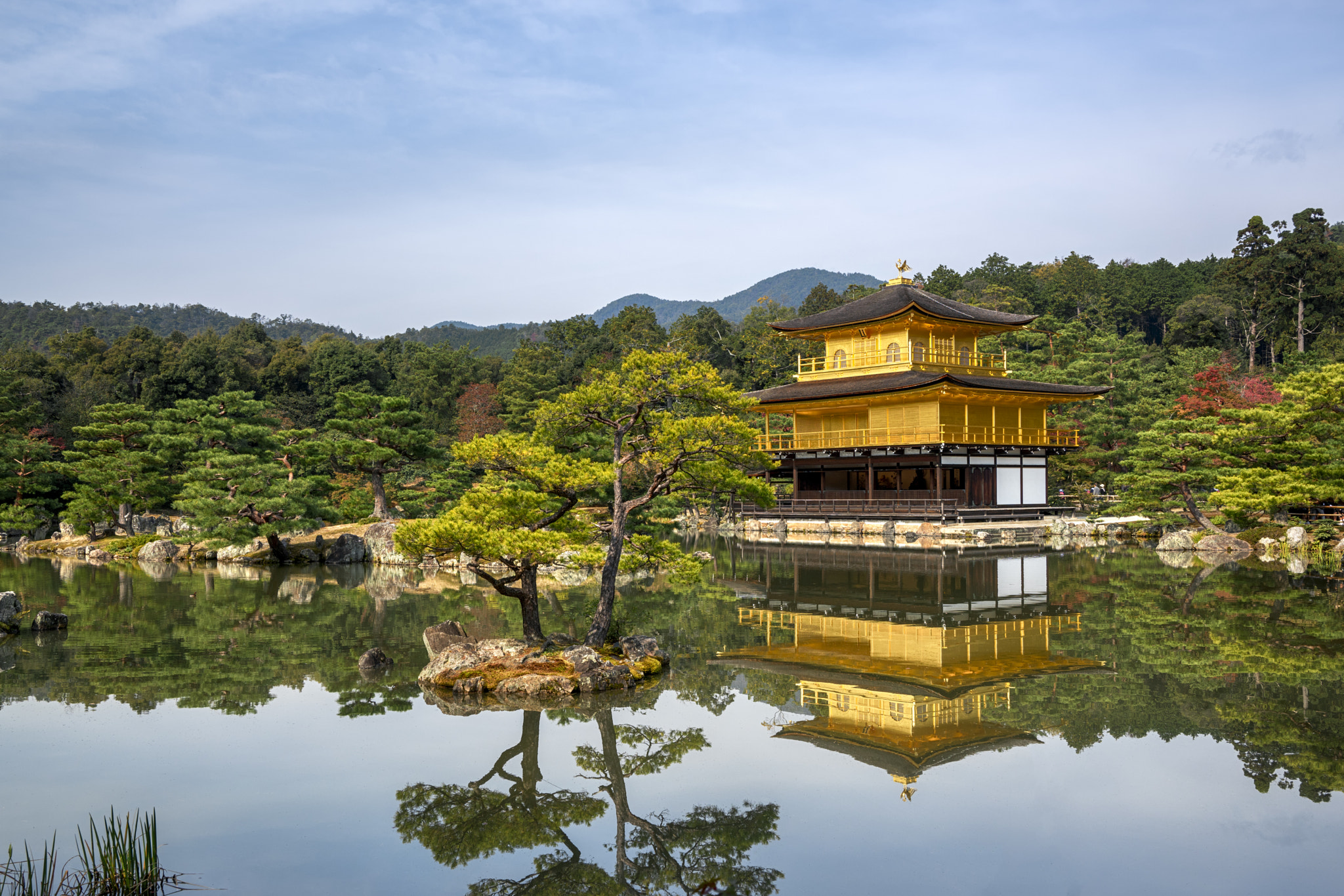 500px provided description: A beautiful fall day in Kyoto! The recently restored "Golden Pavilion" is spectacular. [#landscape ,#japan ,#kyoto ,#garden ,#golden pavillion ,#Kinkaku-ji]